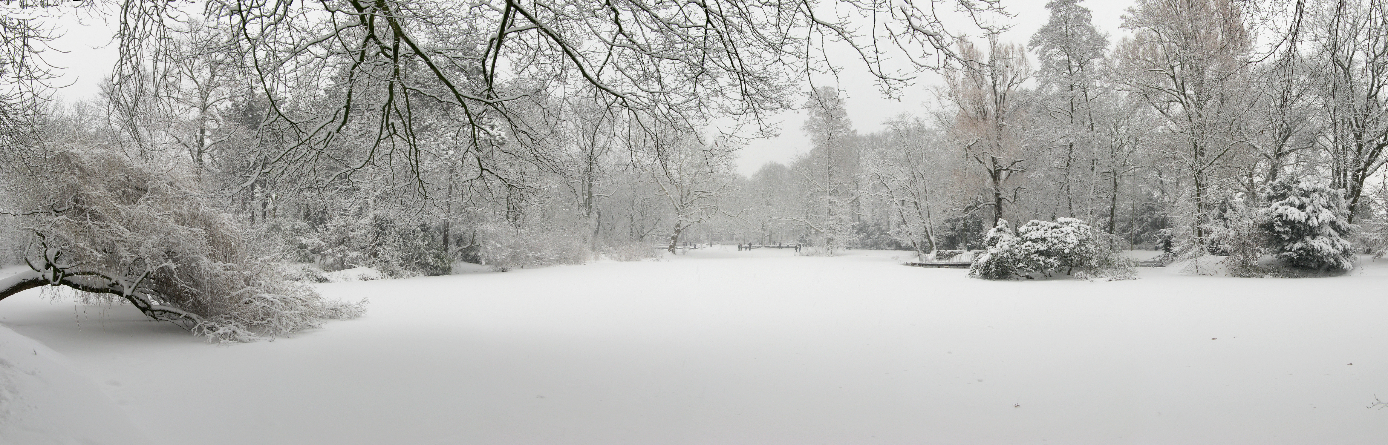 Julianapark Utrecht covered in Snow